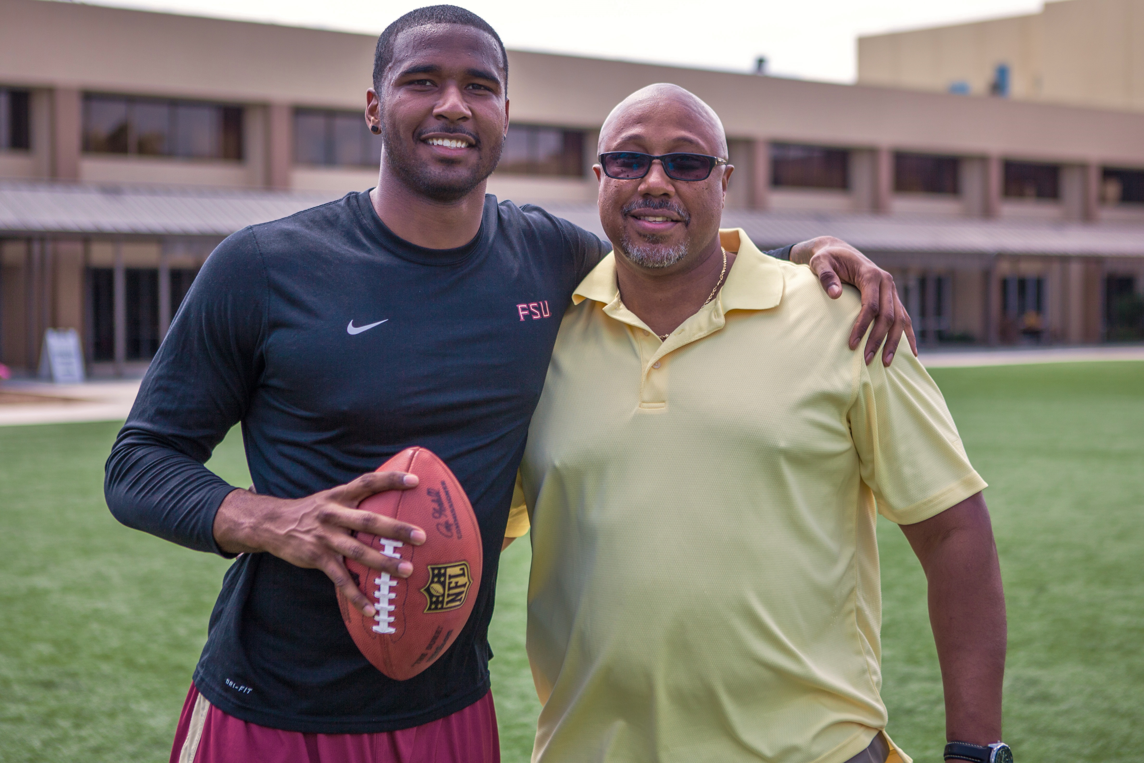 Former Florida State quarterback E. J. Manuel poses for a photo with his father Eric.